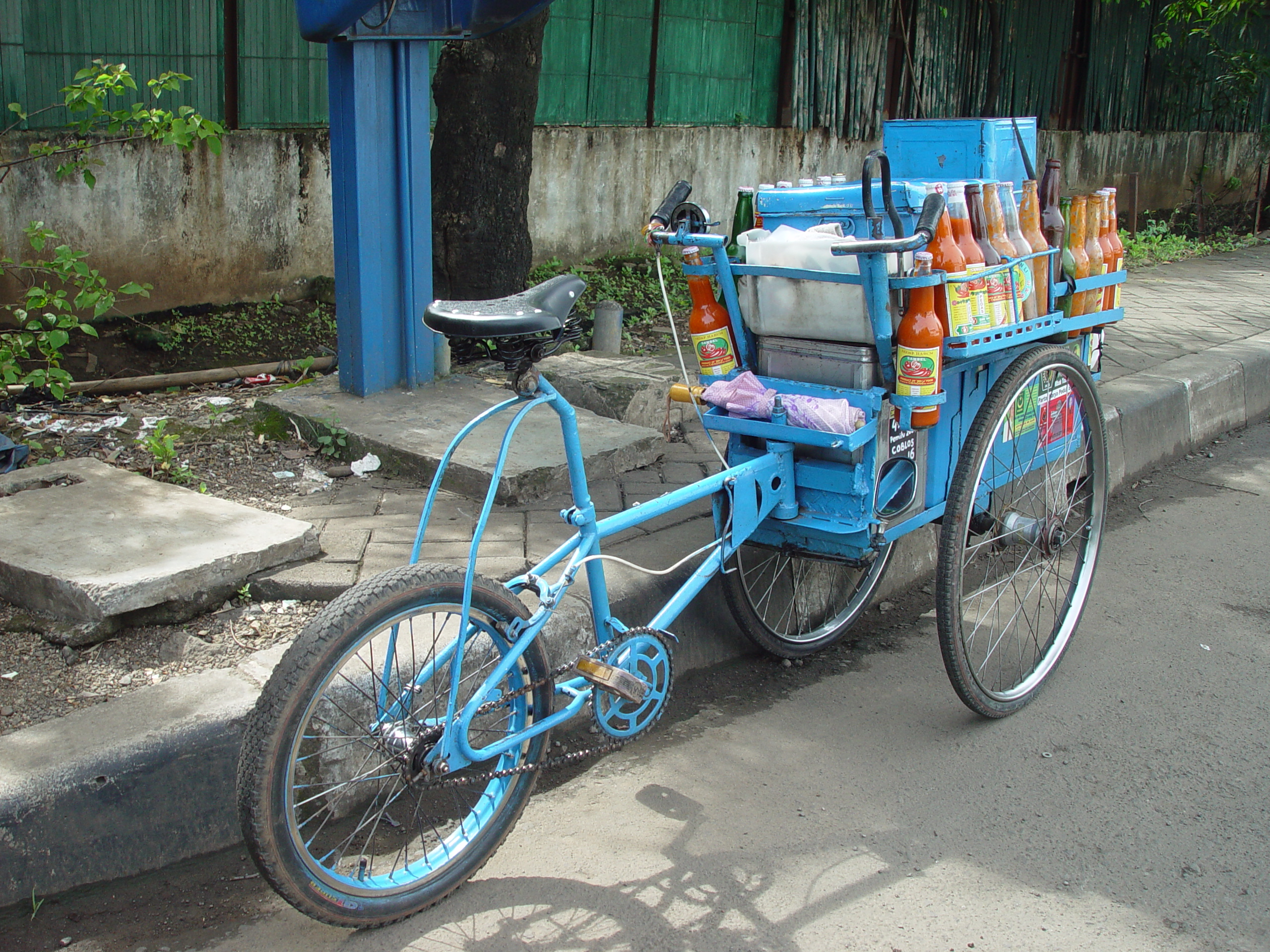 Hot sauce vender's bike vehicle, Jakarta Indonesia.